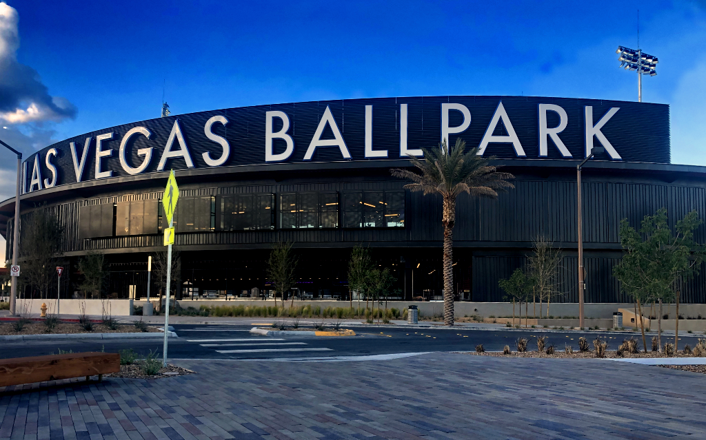 The front of Las Vegas Ballpark in Summerlin, Nevada